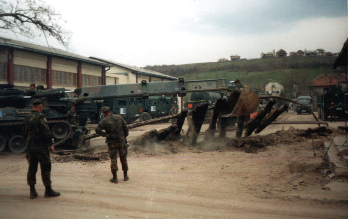 Clearance of rail in SFOR-Camp Rajlovac near Sarajevo